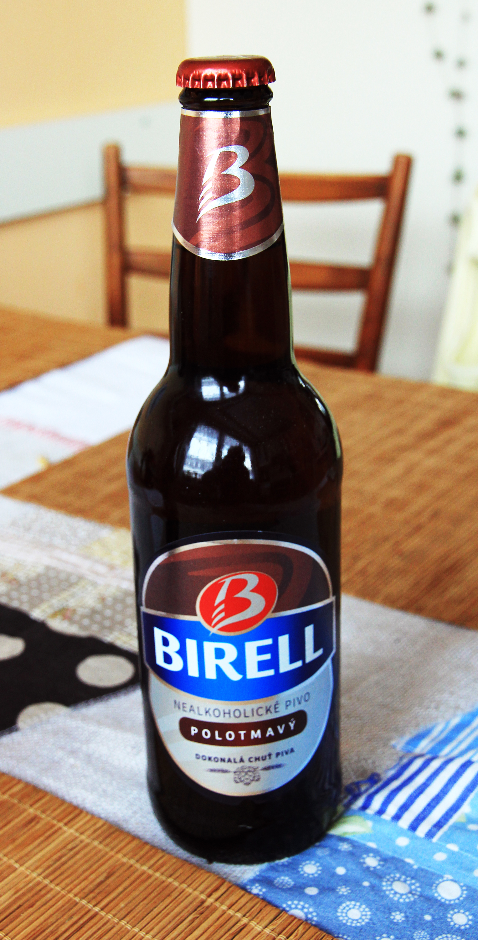 Bottle of Czech nonalcoholic beer Birell polotmavý (Birell half-dark) from brewery Pivovar Radegast in small Moravian town Nošovice, Czech Republic